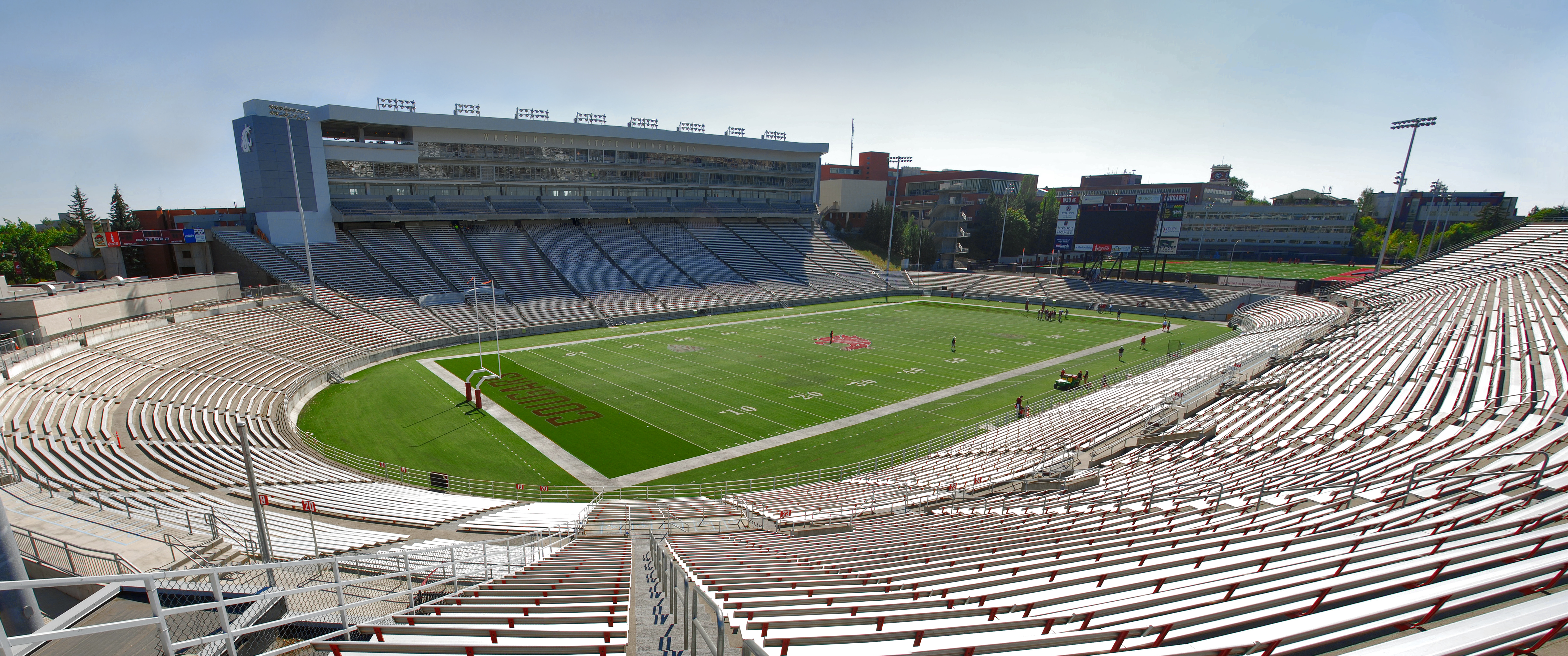 Panorama of WSU's Martin Stadium with the new premium seating addition nearing completion.